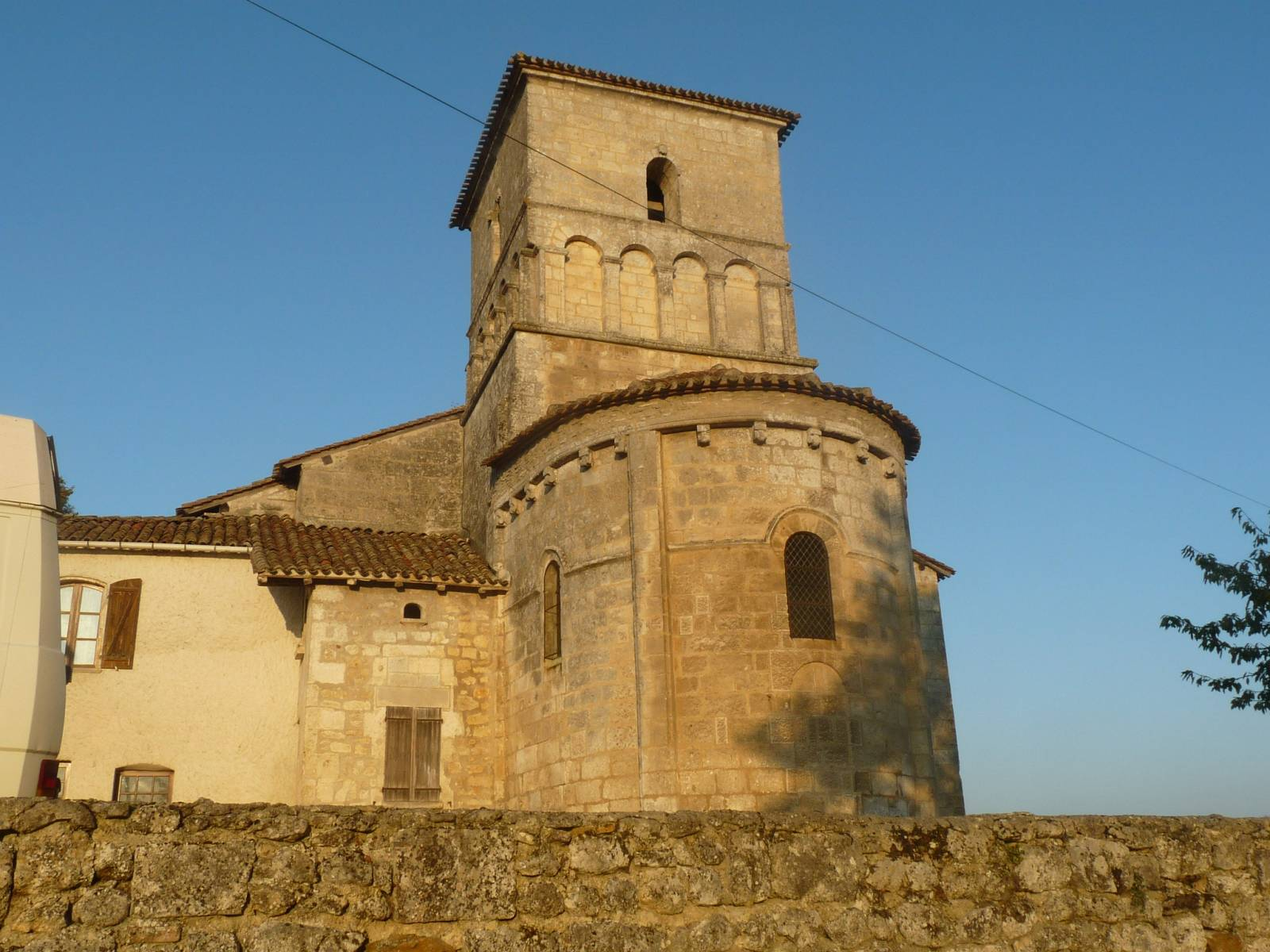 church of Dirac, Charente, SW France